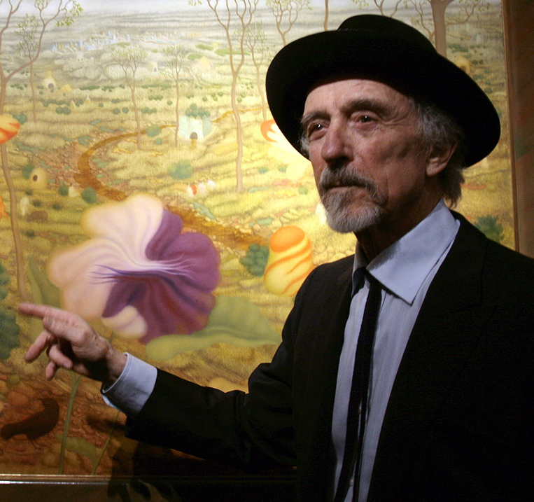 Arik Brauer during the opening of the exhibition Arik Brauer und die Bibel (Arik Brauer and the Bible) on the occasion of his 80th birthday in front of his painting Elginat Egos (Vienna, Austria).